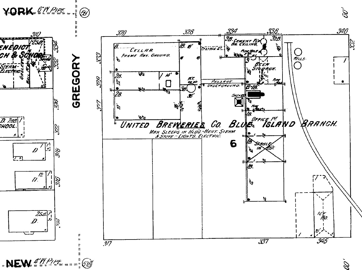 Detail from 1911 Sanborn Map showing the details for the Blue Island facility of the United Brewing Company